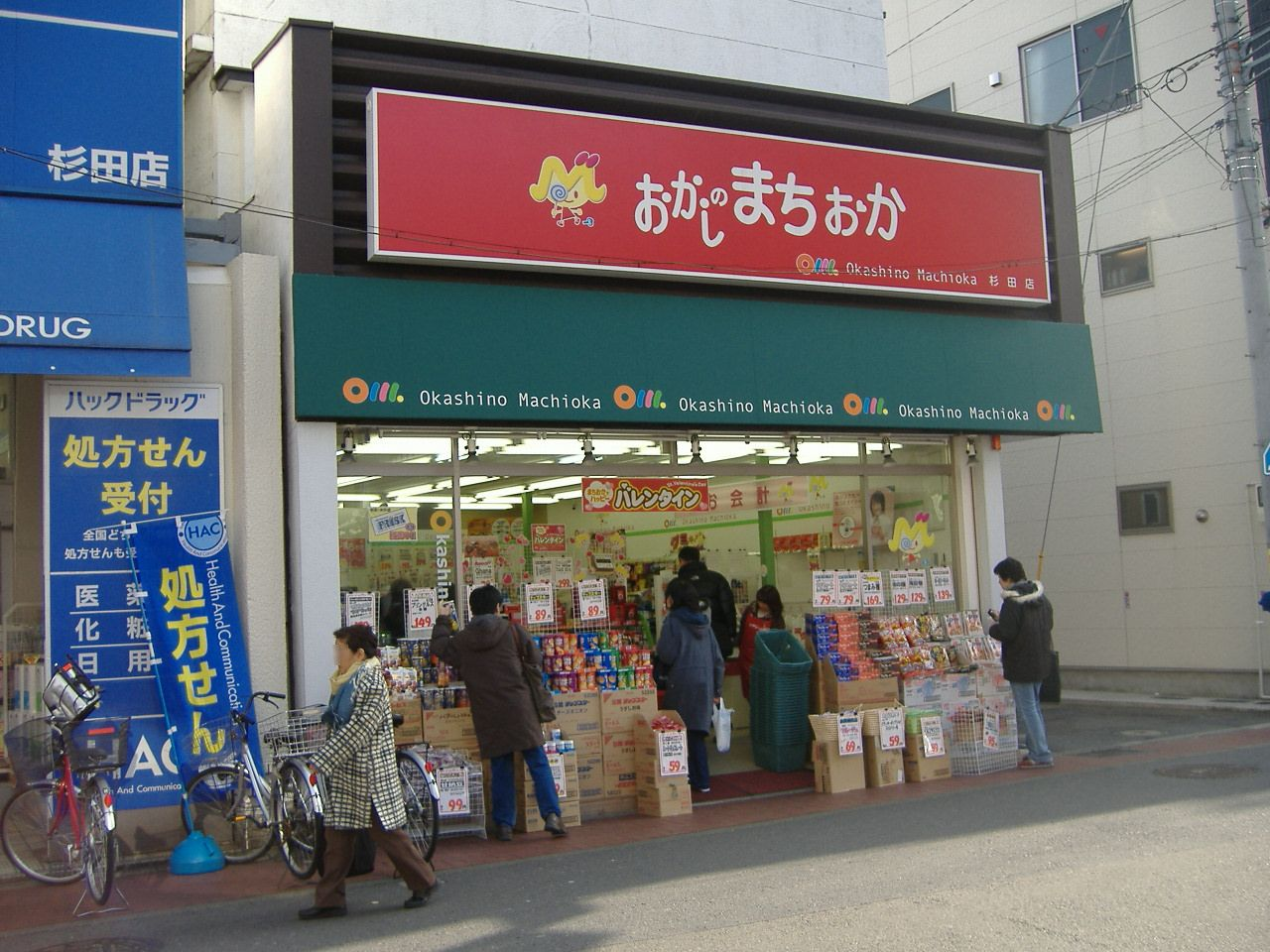 Confectionery store "Okashi-no-Machioka"